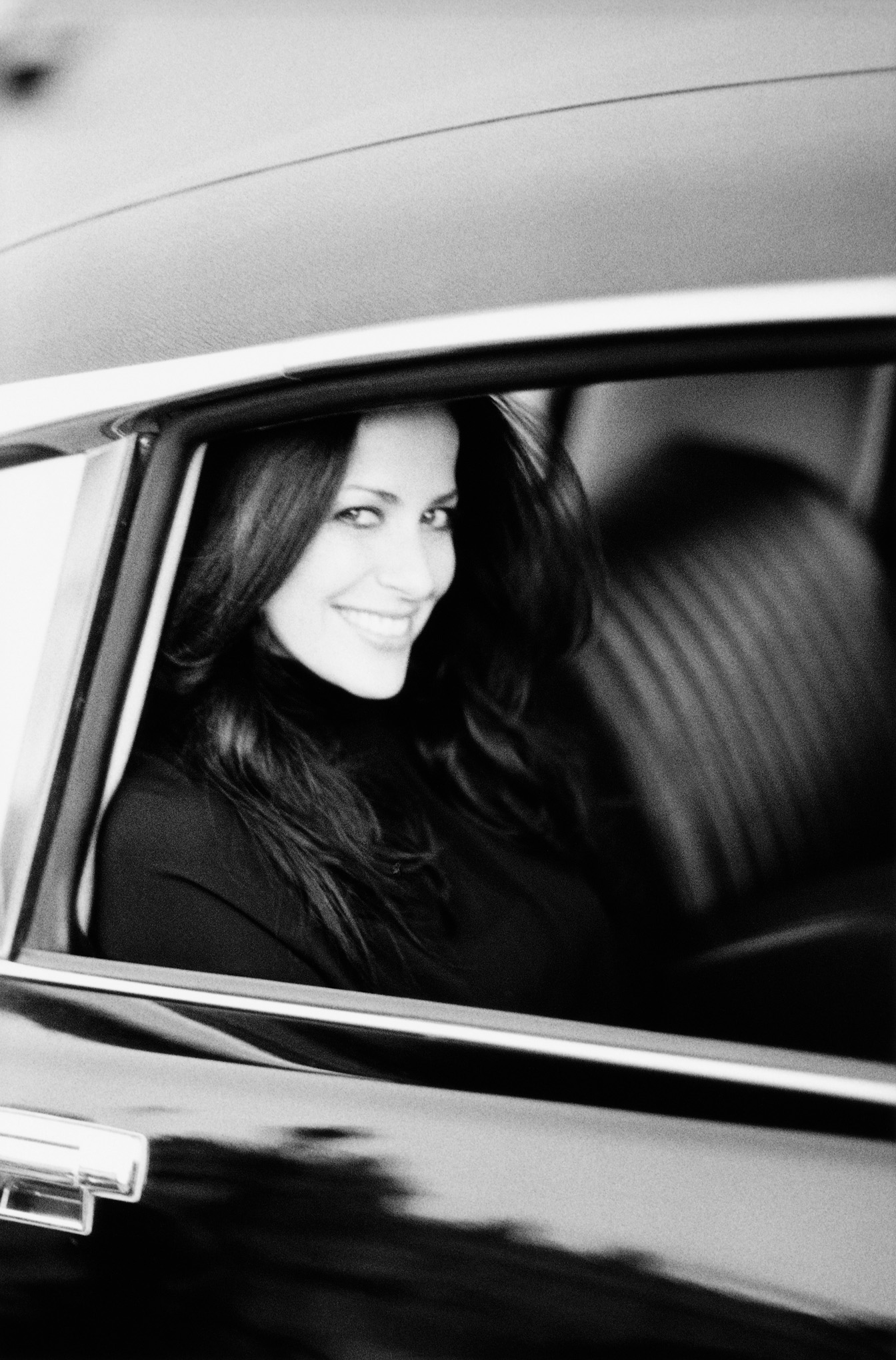 Image of Jill Stuart in car